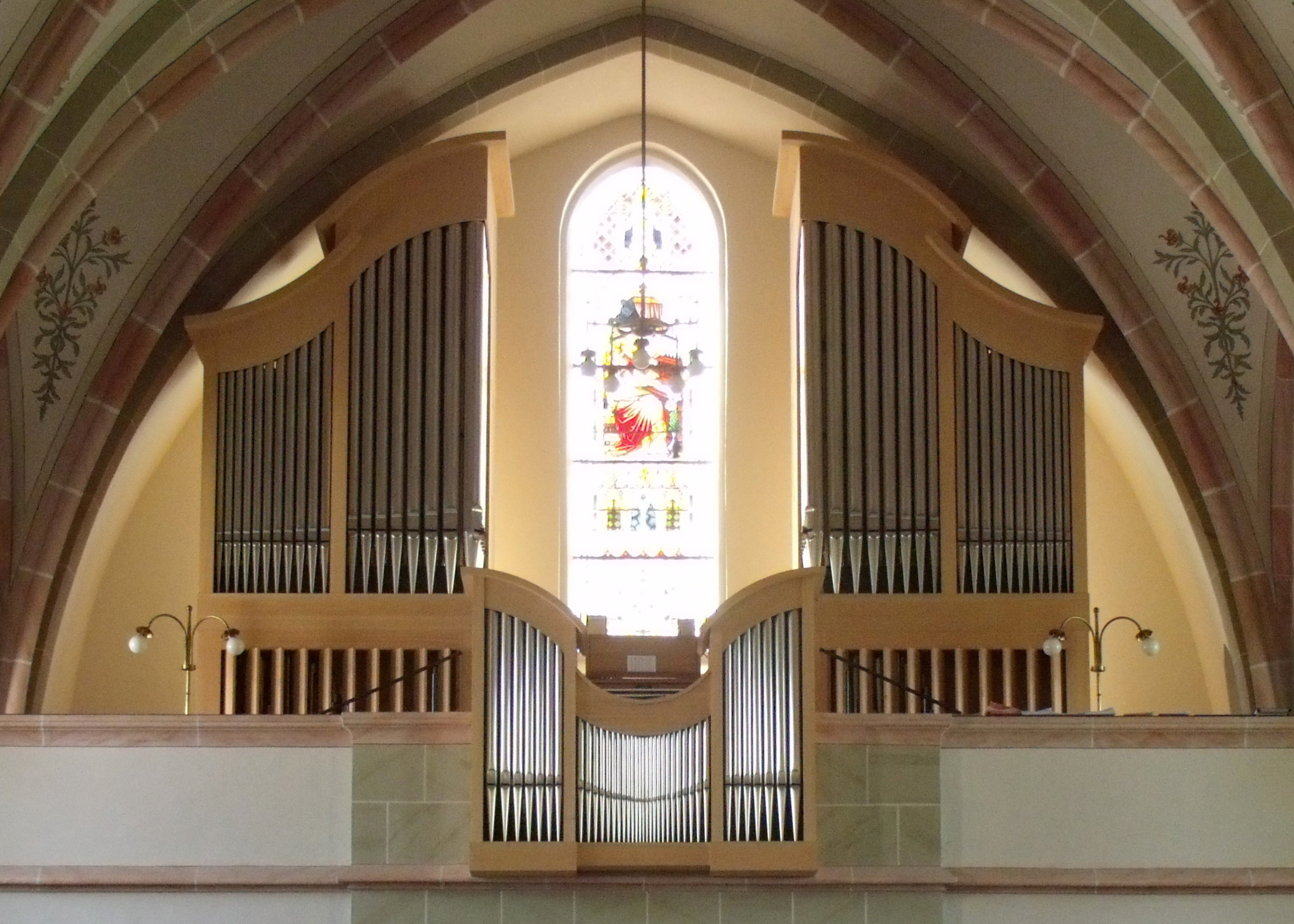 Isny, St. Maria, Empore